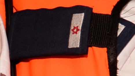 Marine Attias, a Magen David Adom paramedic, puts away medical equipment as U.S. Army Spec. James Black, a multi-channel radio operator maintainer assigned to the 44th Signal Battalion at Grafenwoehr, Germany, and Atlanta native, reviews his heart rate monitor while onboard an ambulance during a simulated medical evacuation as part of the Juniper Cobra 14 defense training exercise in Israel, May 20, 2014. The goal of JC14 is to exercise both nations? active defense forces and to improve their combined ability to defend against missile attacks. (U.S. Air Force photo by Staff Sgt. Joe W. McFadden/Released)